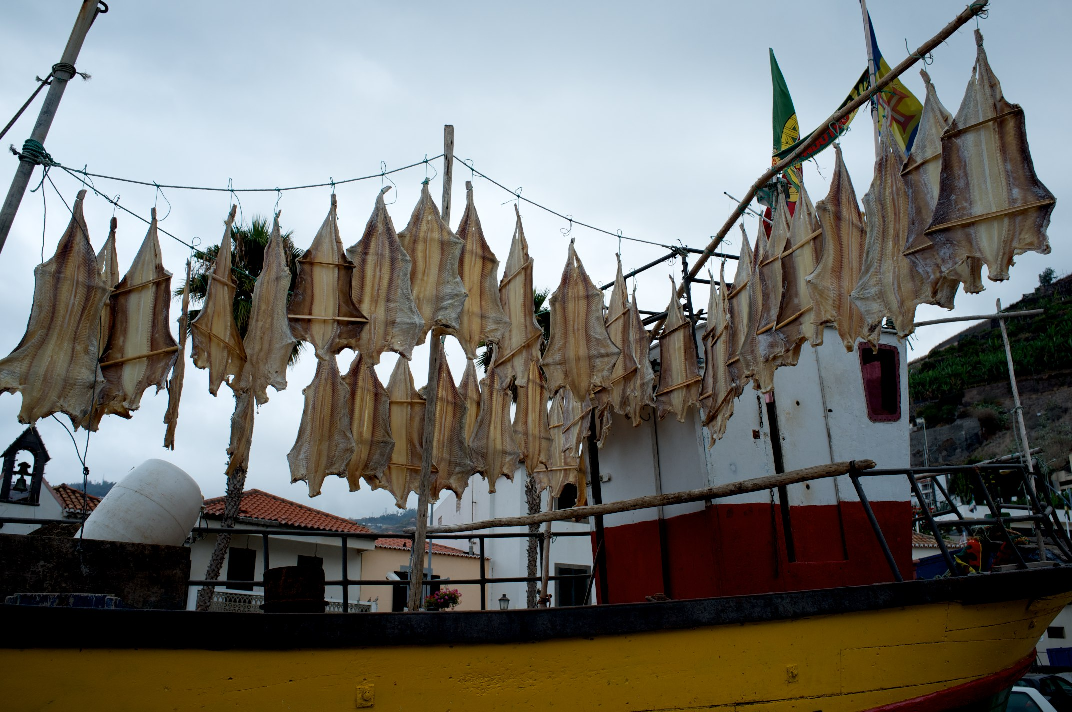 Catfish ship at Câmara de Lobos